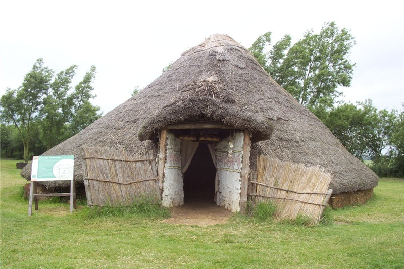 Flag fen iron age roundhouse reconstruction